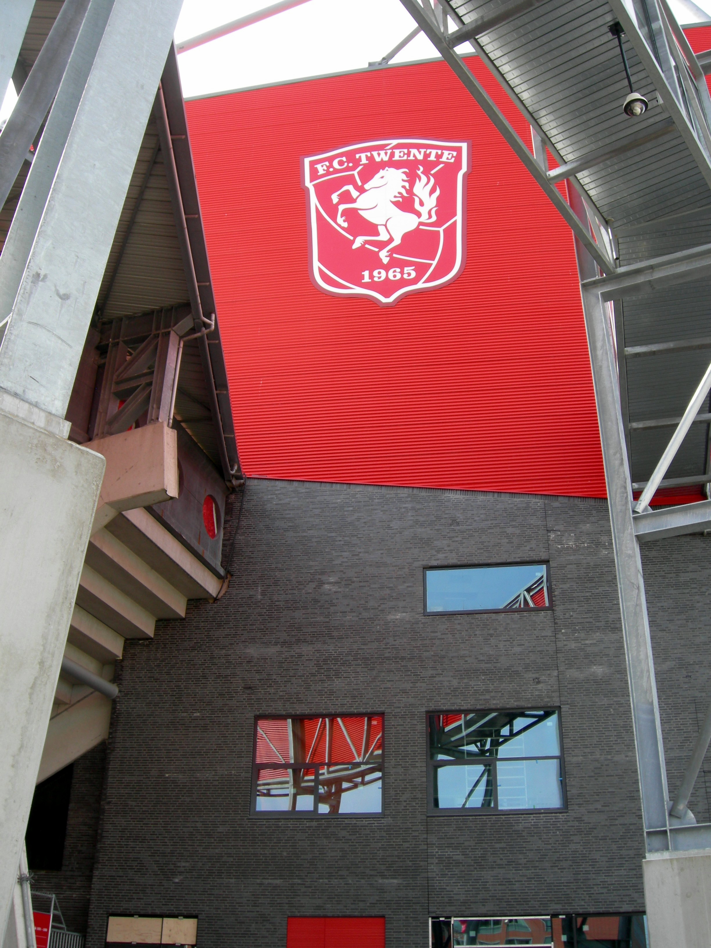 Outside corner architecture of De Grolsch Veste. Stadium of FC Twente from Enschede.